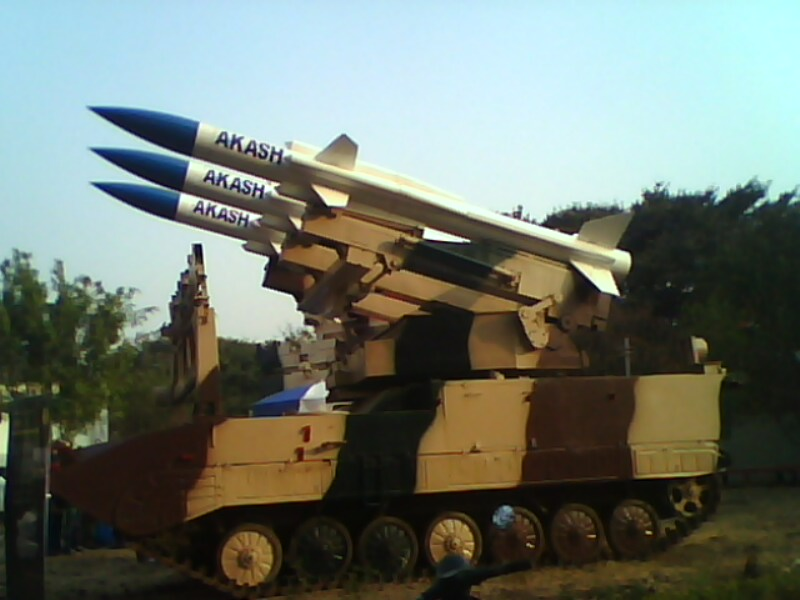 Indian Army Exhibiting the armour of Mother India at DRDO (DEFENCE RESEARCH & DEVELOPMENT ORGANISATION)